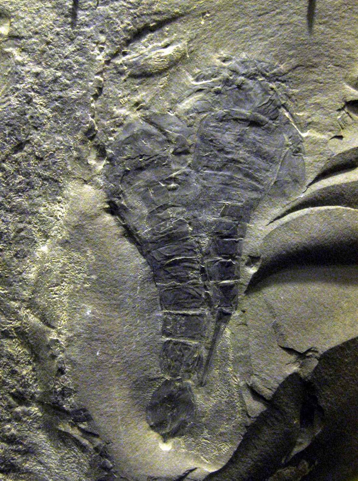 Fossil Eurypterids Acutiramus cummingsi (jr synonym = Pterygotus buffaloensis) and Eurypterus remipes on display at Schiele Museum of Natural History, Gastonia, North Carolina. From Herkimer County, New York.